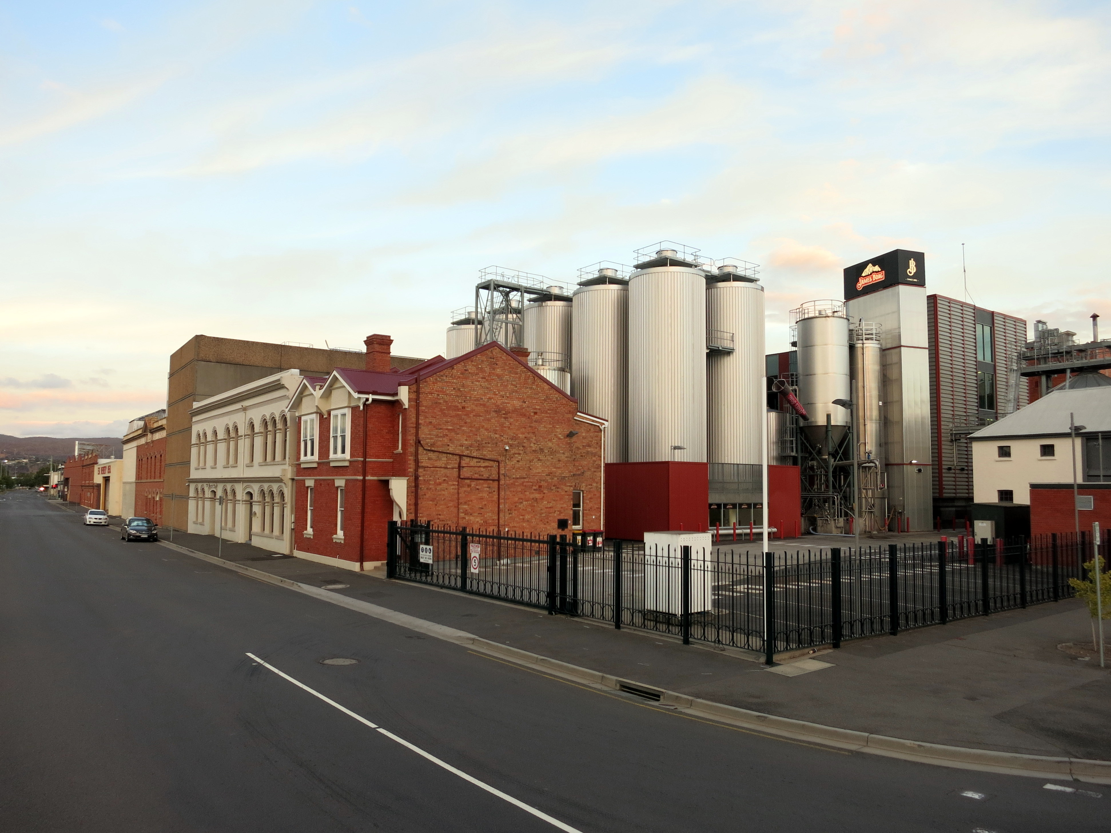 The Esplanade side of the James Boag brewery complex in Launceston